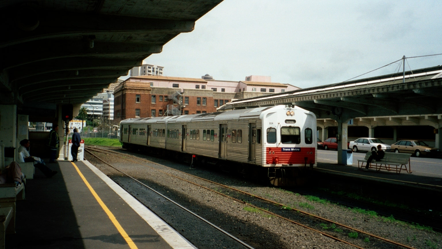 Auckland Railway Station, 2004, Aucklands central station at this time